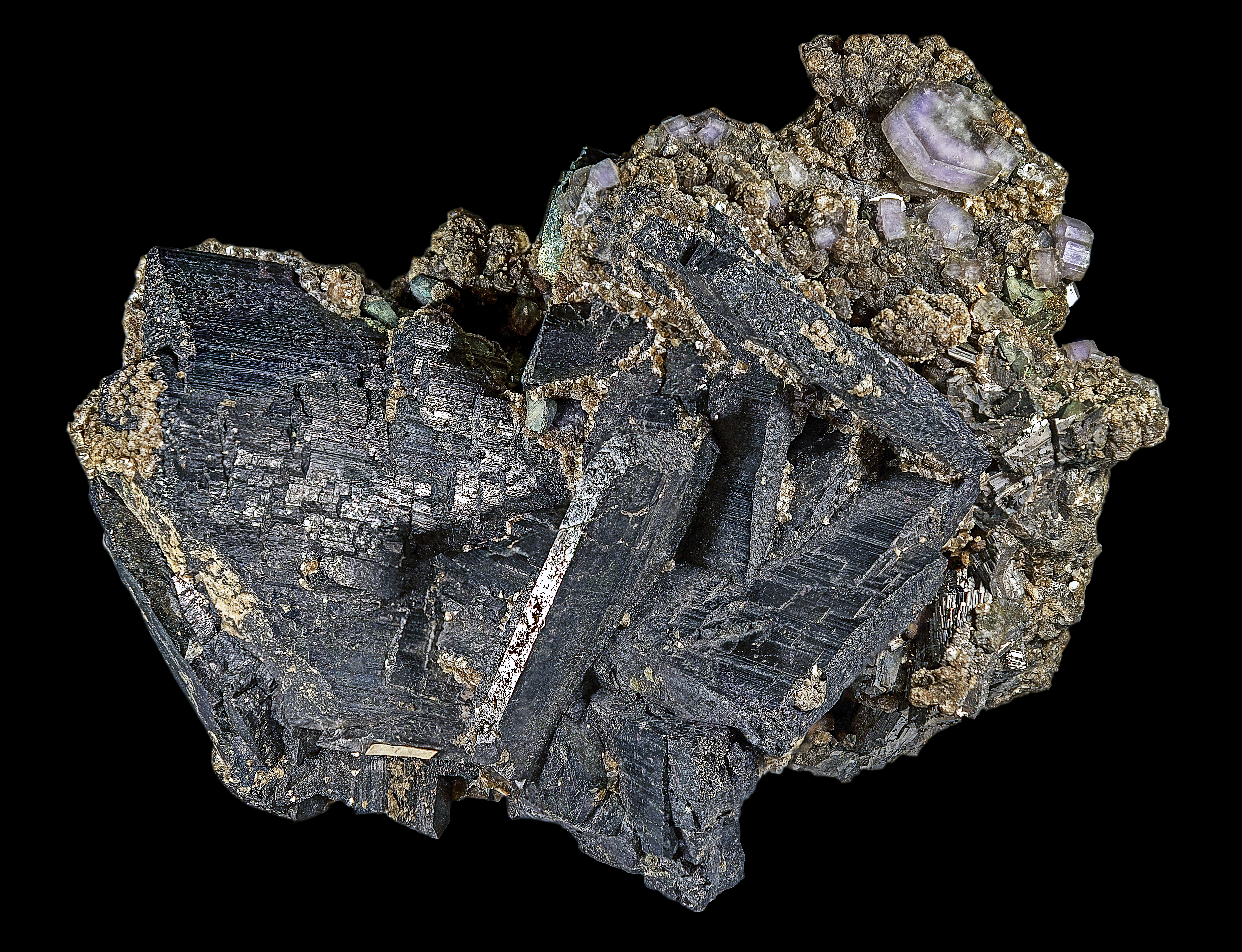 Wolframite (Ferberite), Apatite, Arsenopyrite, Zinnwaldite. (18x13 cm)